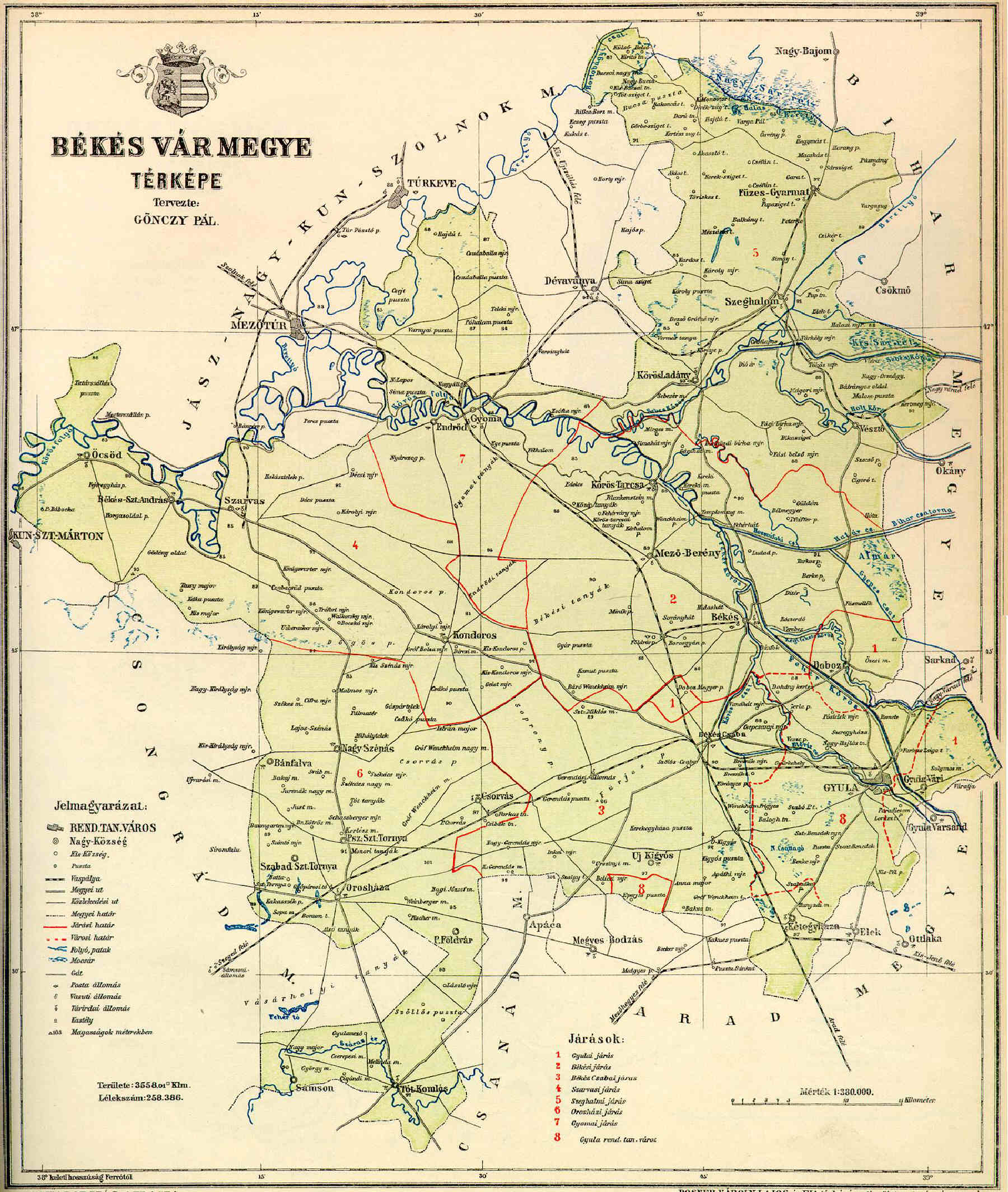 County of Békés in the pre-Trianon Kingdom of Hungary.